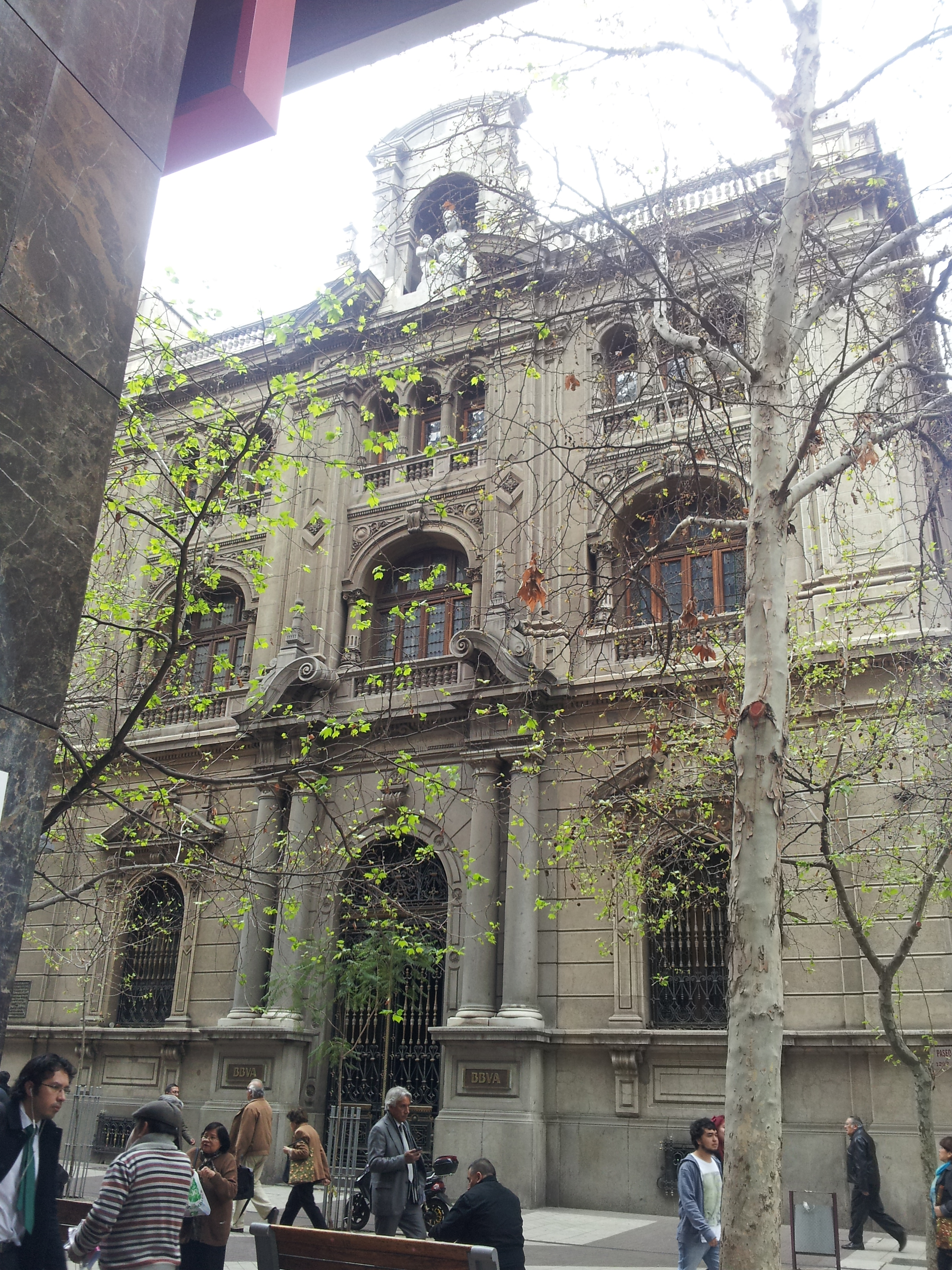 Seat of the Constitutional Court of Chile, located in Huérfanos St 1234, Santiago, Chile